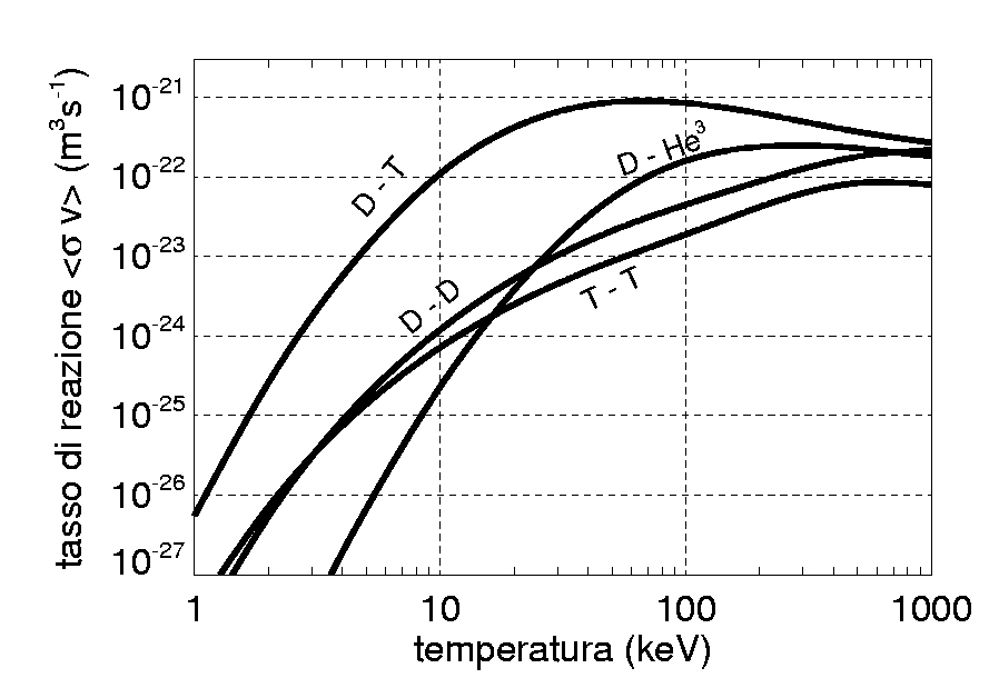 Plot of the average reaction rates for the following fusion reactions: Deuterium-Deuterium (D-D), Deuterium-Tritium (D-T) and Deuterium-Helium (D-He3). Splined data; data source is the NRL Plasma Formulary (page 45, revised 2007). The NRL Plasma Formulary is downloadable at